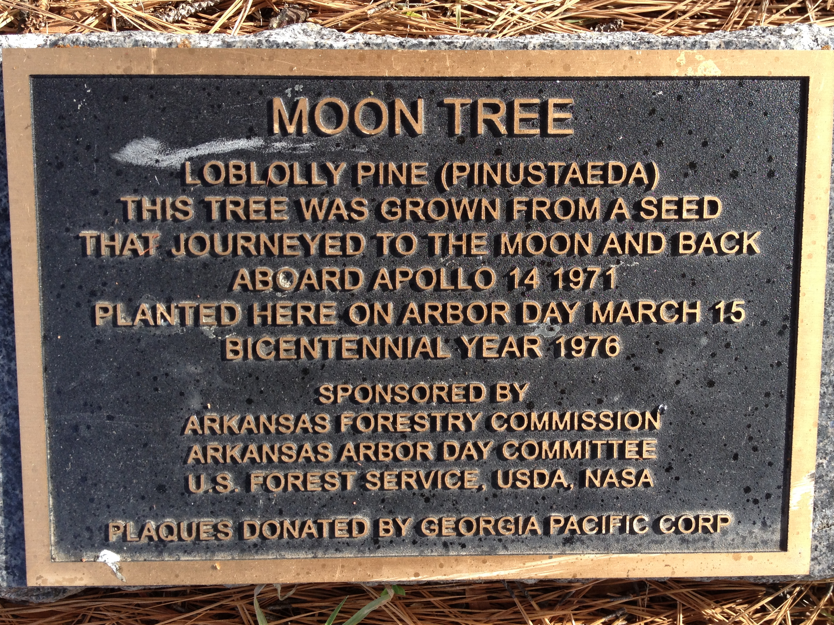 Moon Tree plaque from Sebastian County, Arkansas, courthouse.